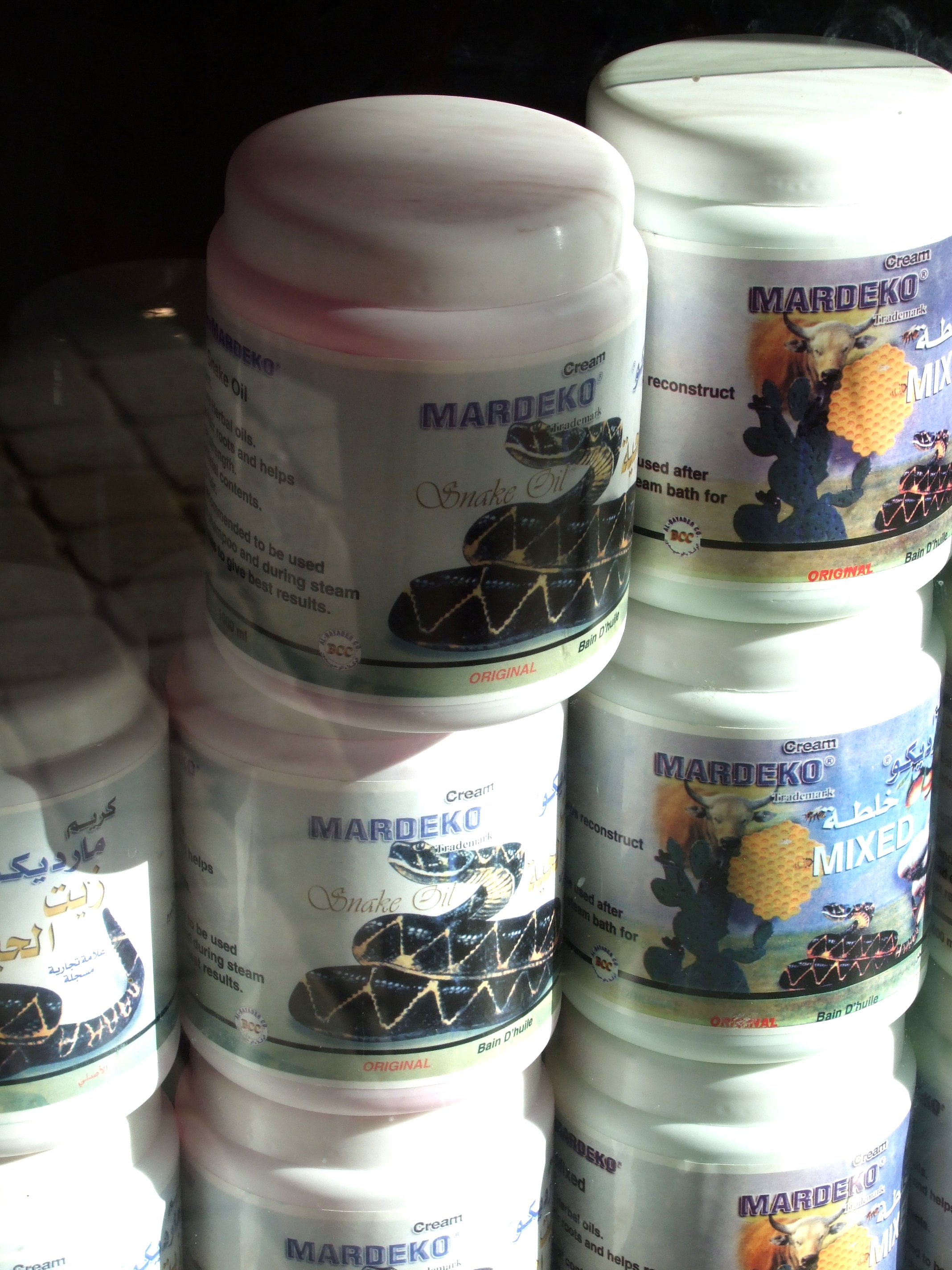 One can buy snake oil tablets in Marrakech.